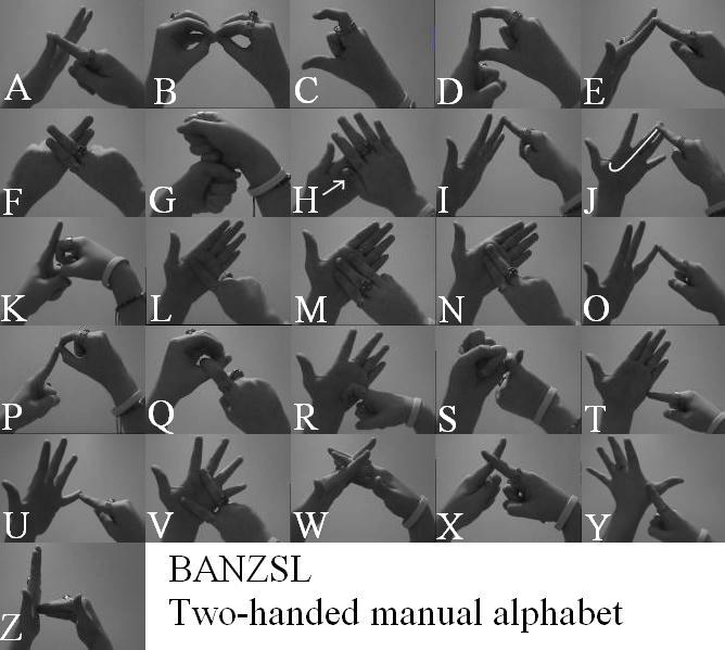 This chart shows the two-handed manual alphabet used in British Sign Language, Auslan (Australian Sign Language), and New Zealand Sign Language.